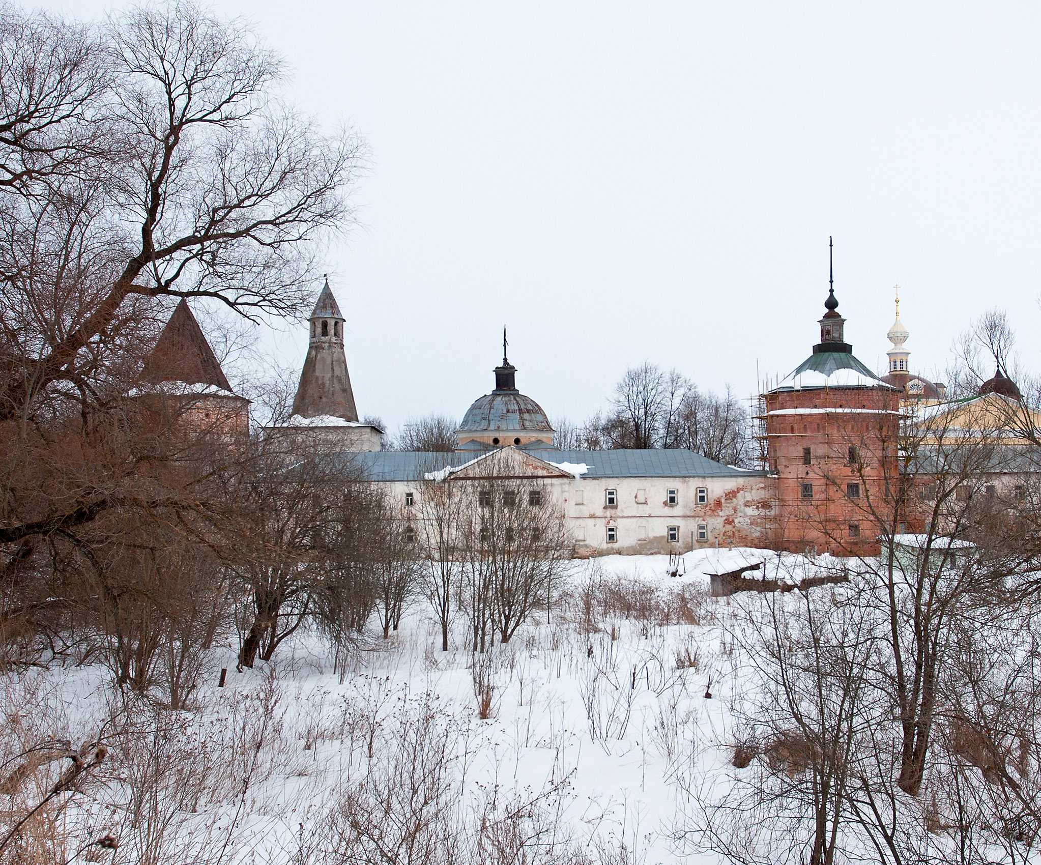 Nikolo-Peshnoshsky Monastery / Moscow Region, Russia